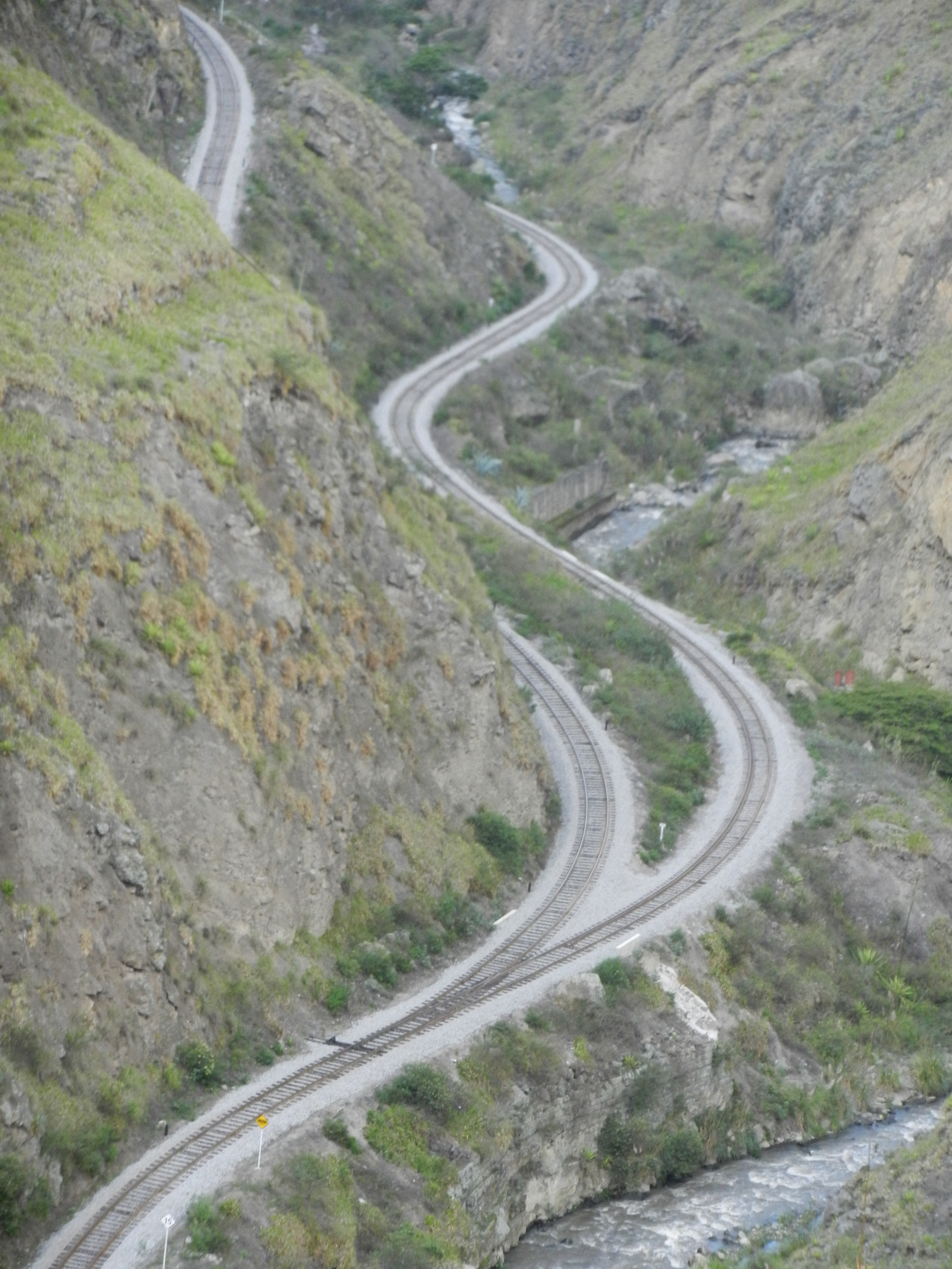 The famous zig-zag railway in section Alausi-Sibambe, Ecuador